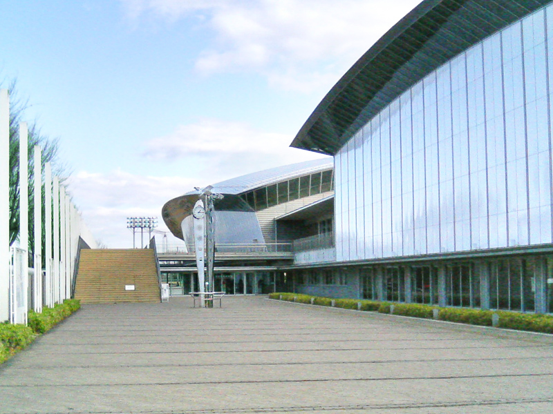 Tokorozawa Municipal Gymnasium, - located in Namiki, Tokorozawa city, Saitama Pref., Japan